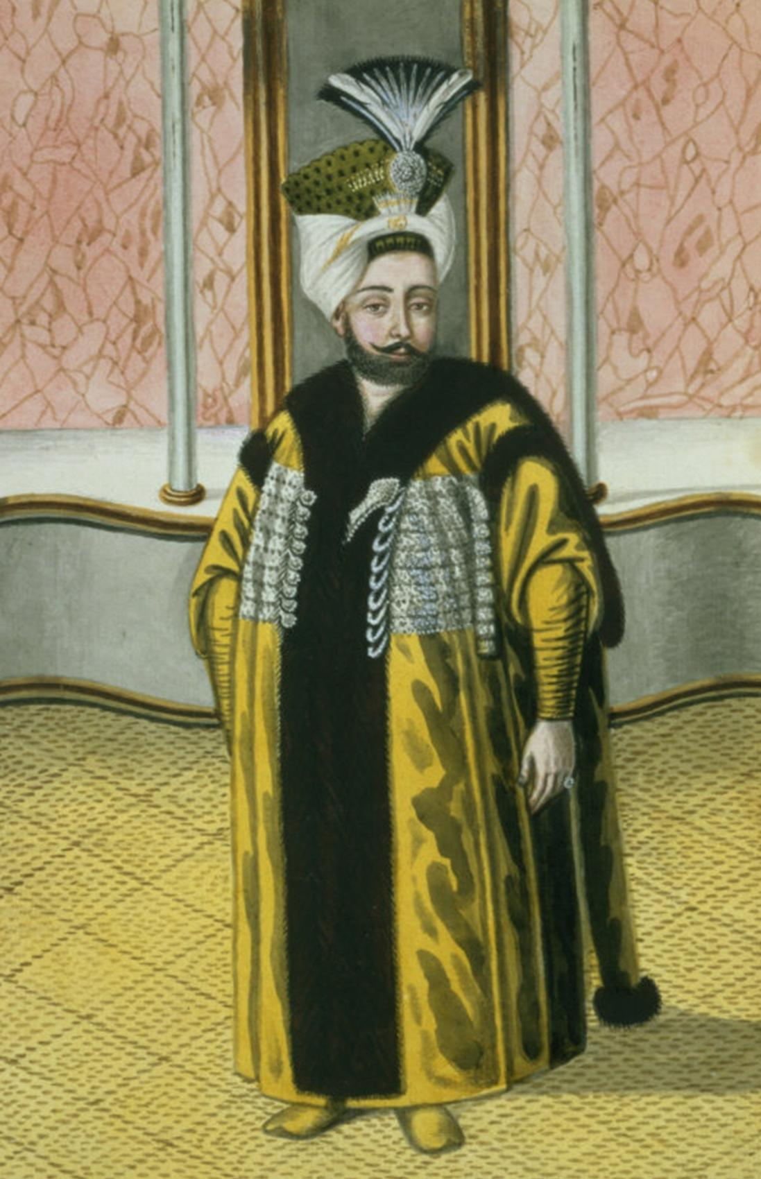 Portrait of Mustafa IV, Sultan of the Ottoman Empire (1807-1808). The portrait has been printed using the Giclée process.